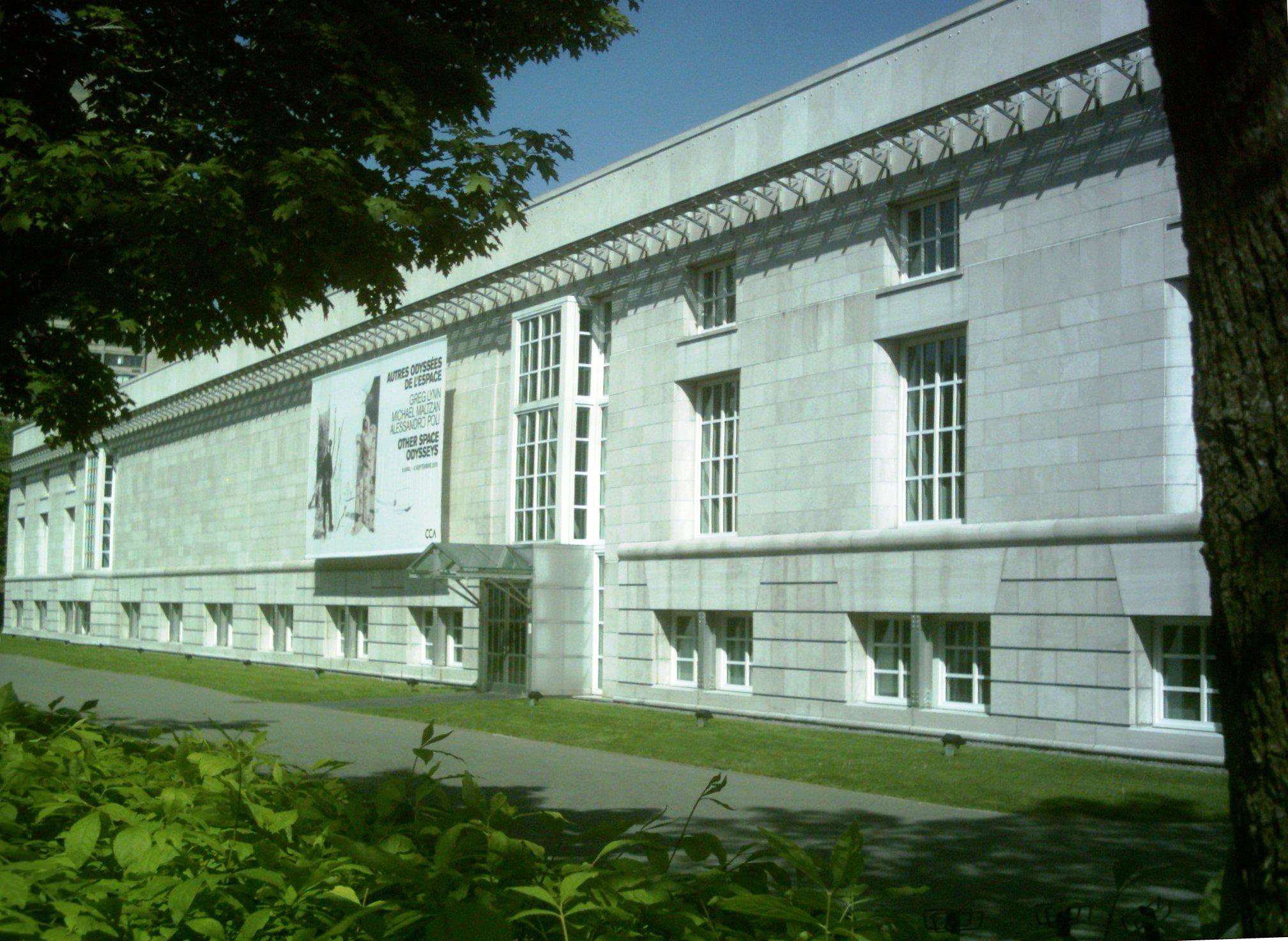 Canadian Center for Architecture, Baile Street side